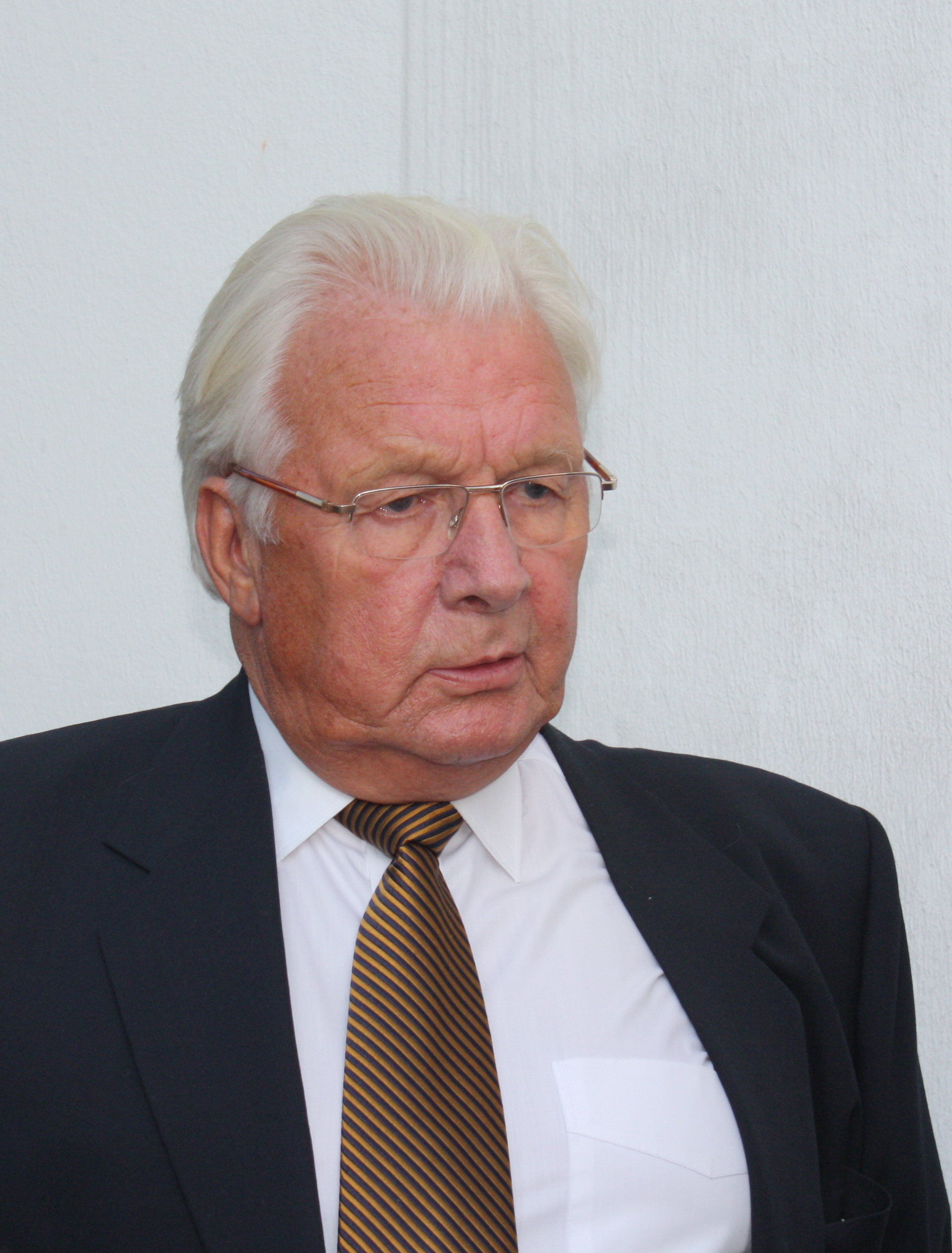 Hans_Stockhausen